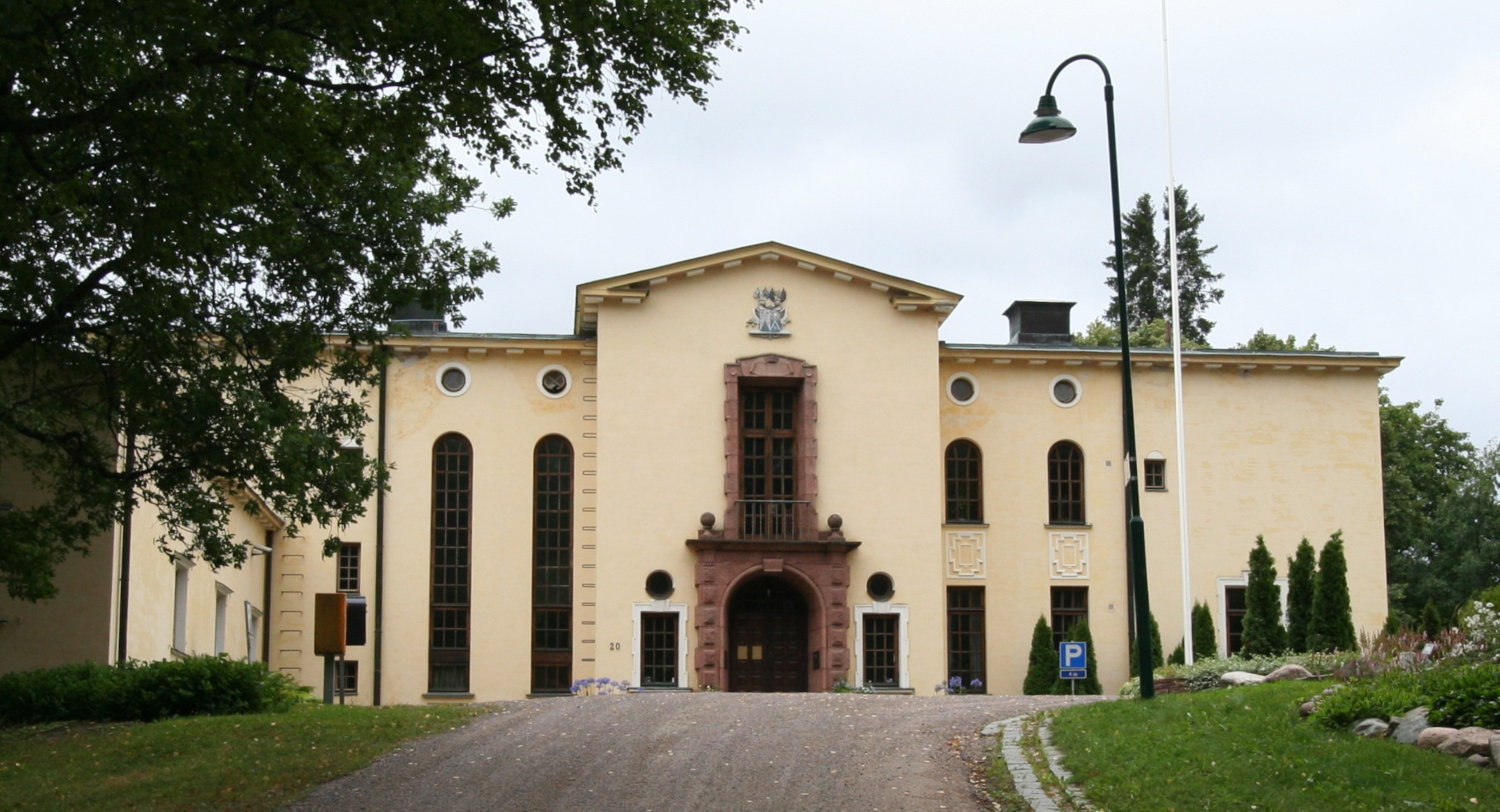 Saari Manour House, Mäntsälä